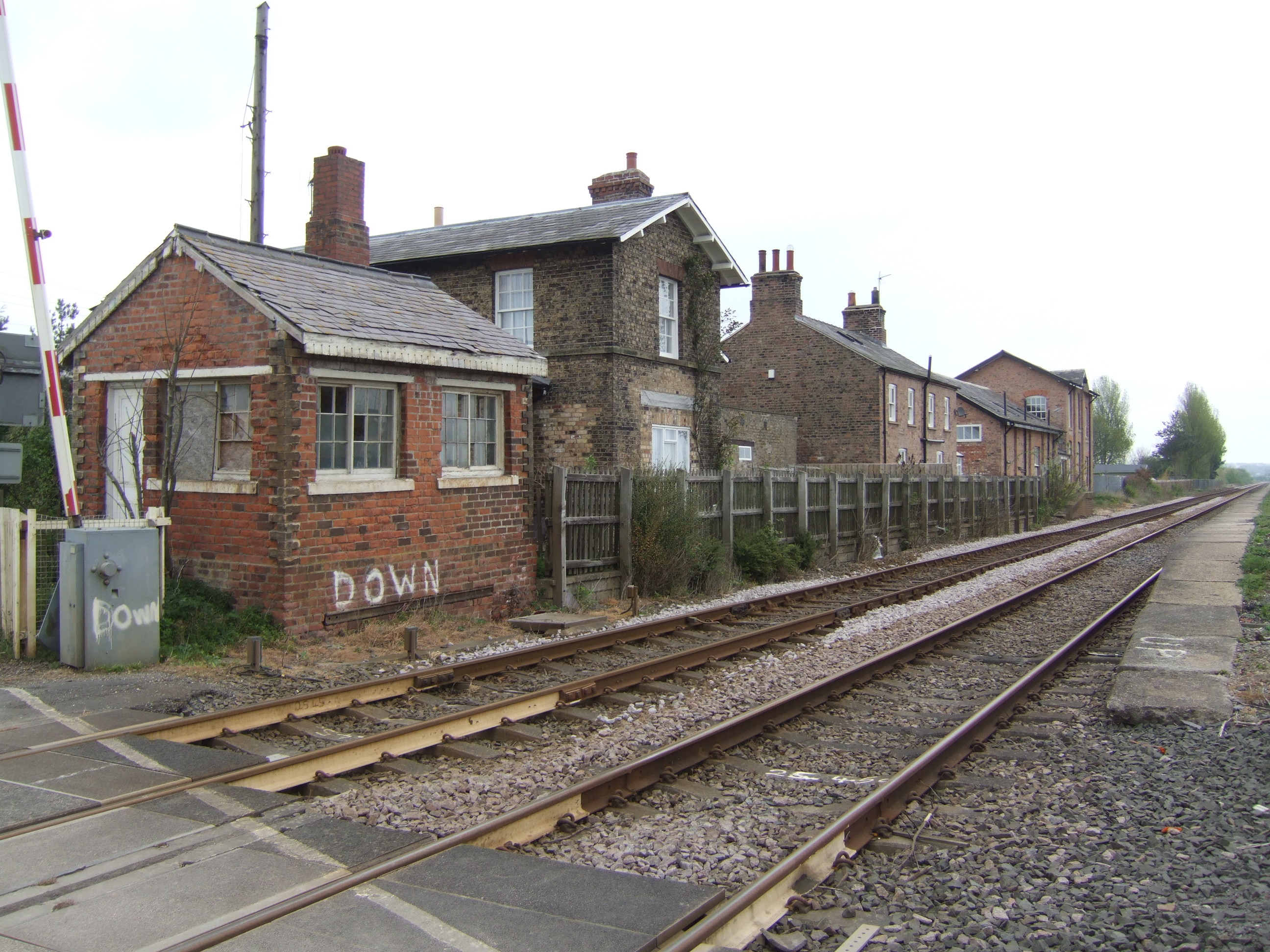 Burton Agnes railway station, Burton Agnes, East Riding of Yorkshire, England. 24.04.2007, by John Thurston